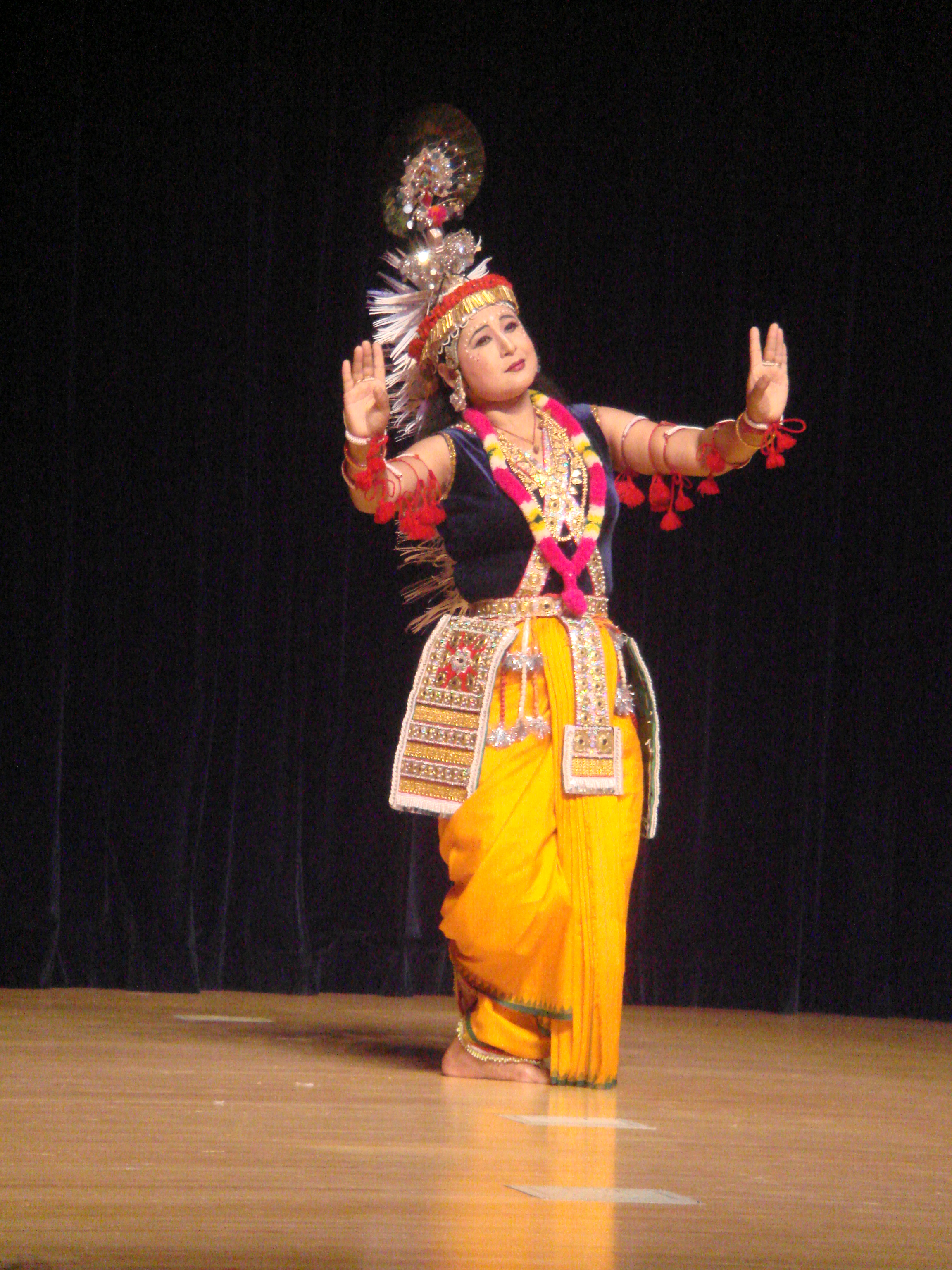 A Manipuri Dancer in traditional Krishna attire.